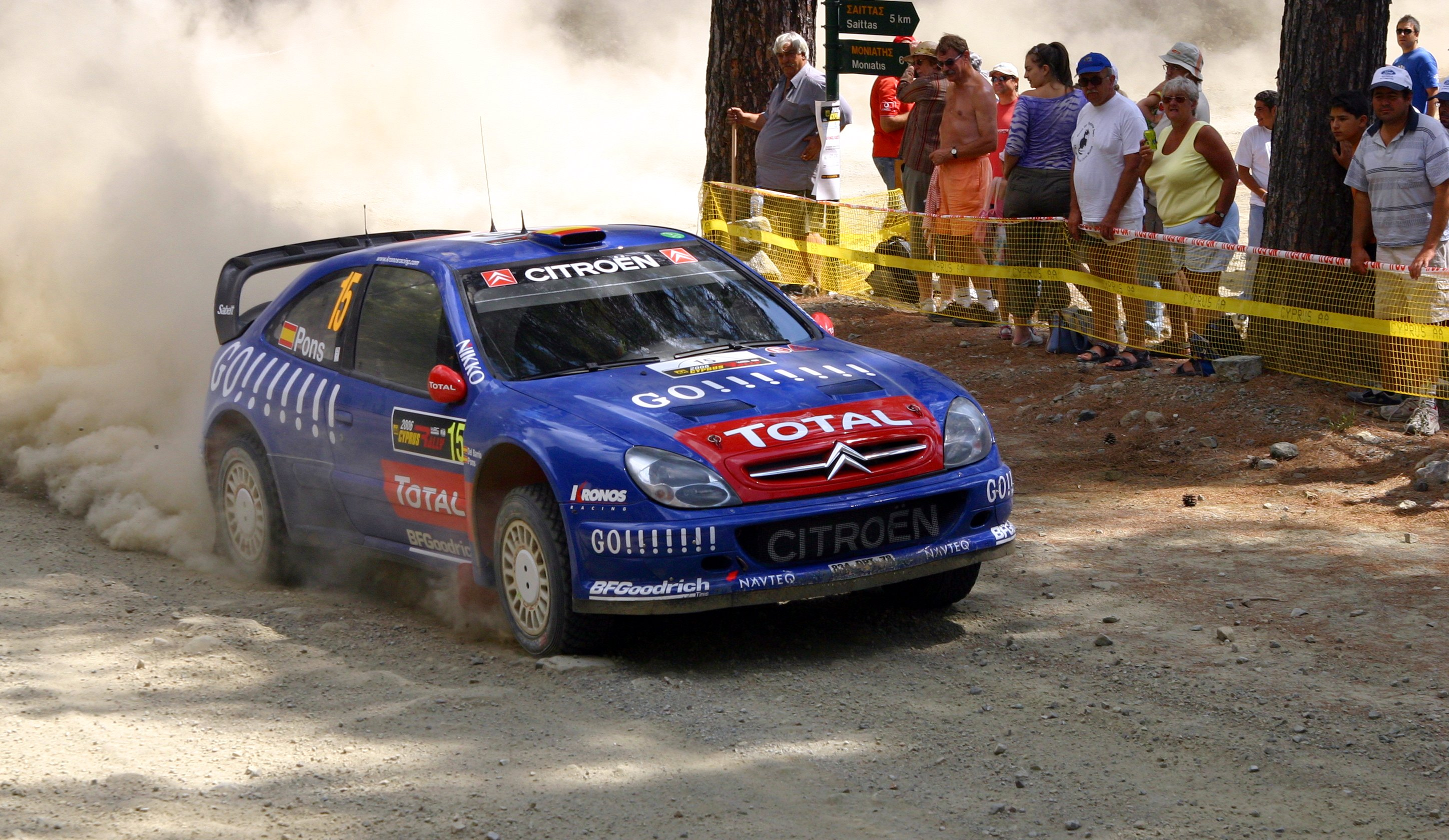 Xavier Pons driving a Citroën Xsara WRC at the 2006 Cyprus Rally.